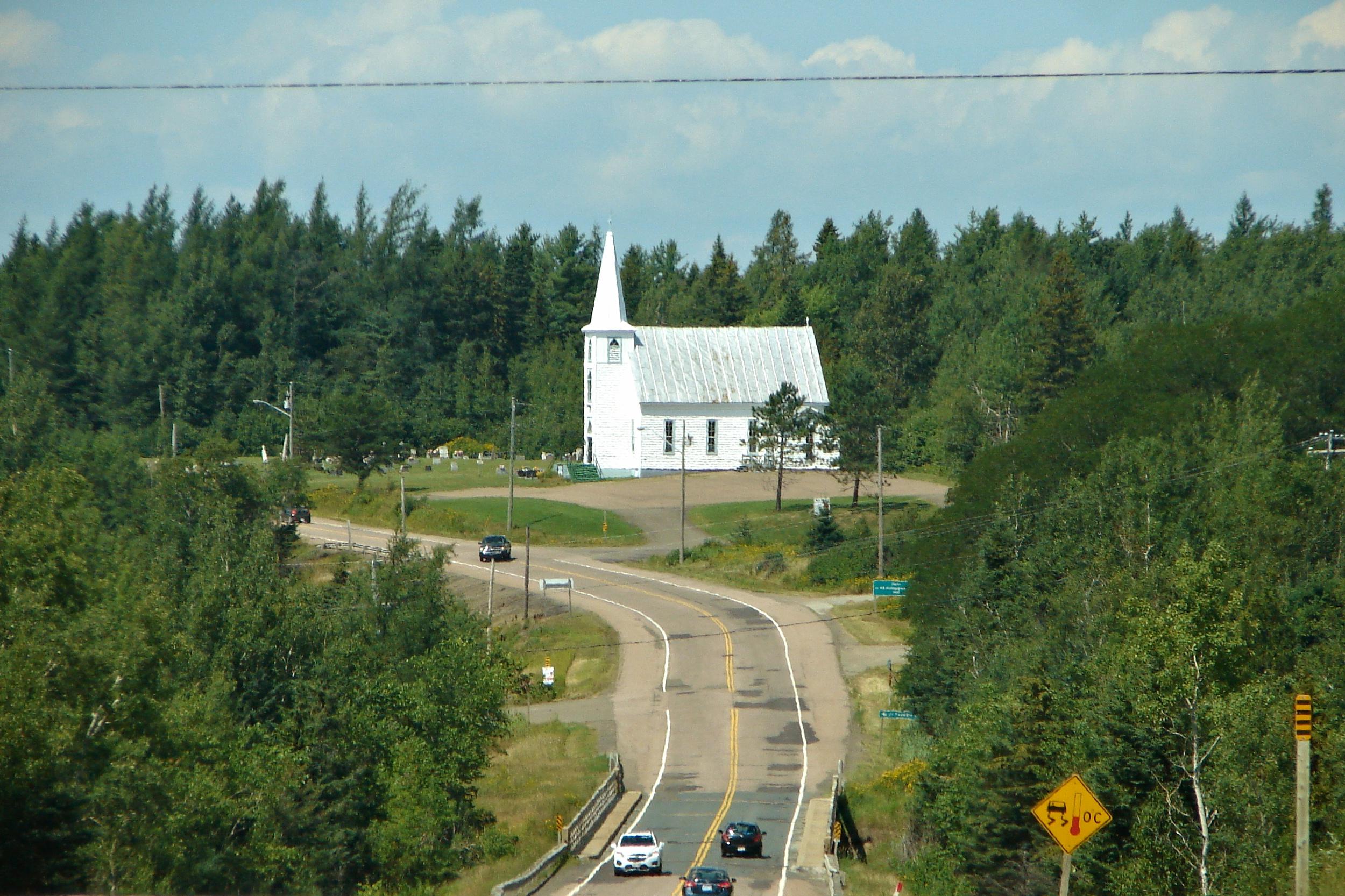 Kouchibouguac, New Brunswick, Canada